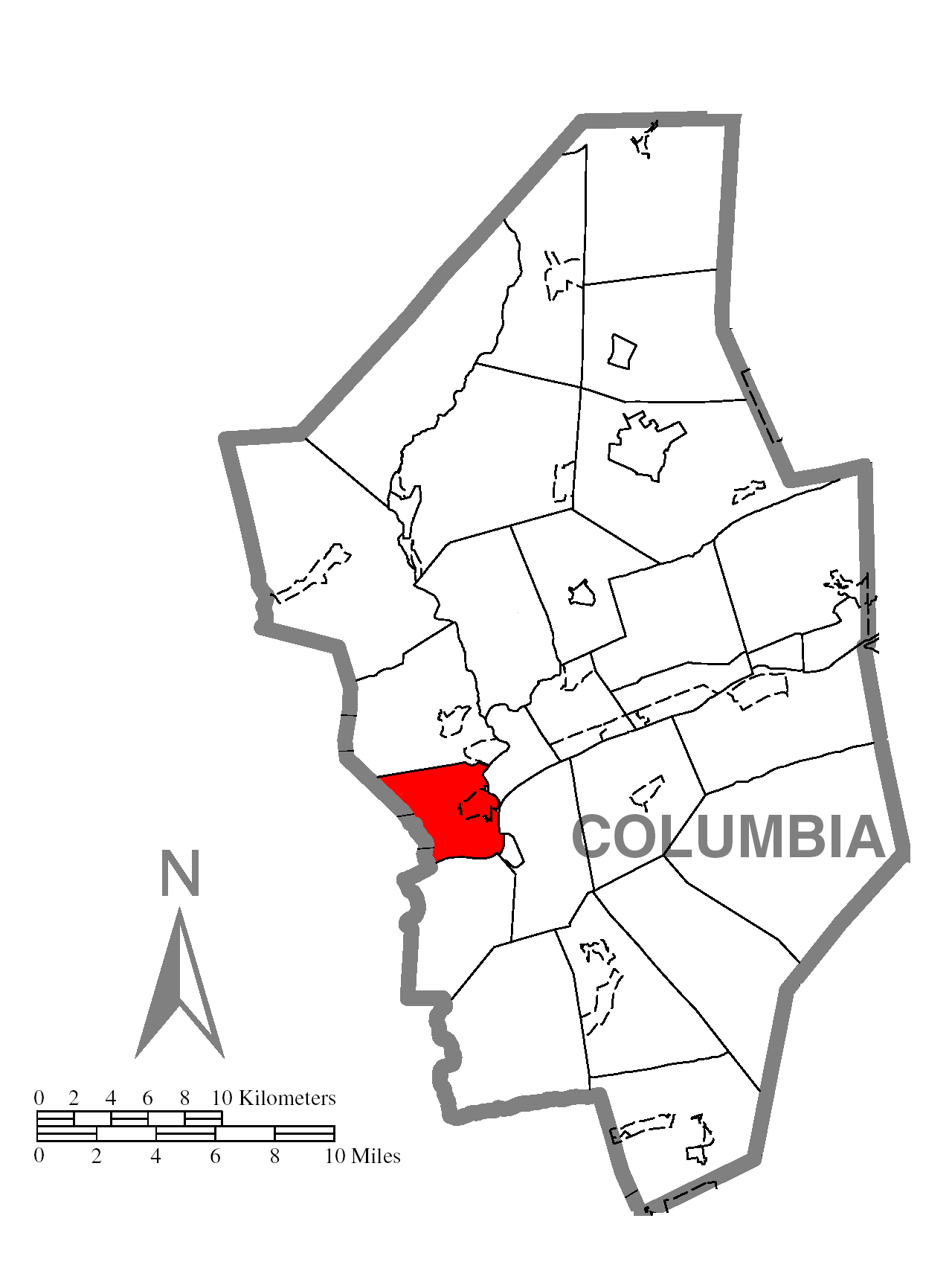 A map of Columbia County showing Montour Township, Pennsylvania (alternate) highlighted on the map.